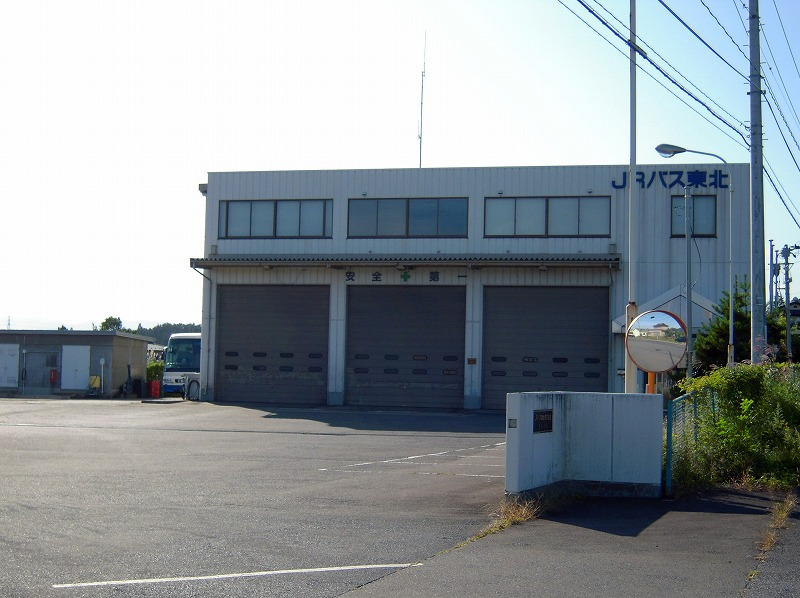 JR bus Tohoku Okama garage (Morioka branch,Takizawa,Iwate)